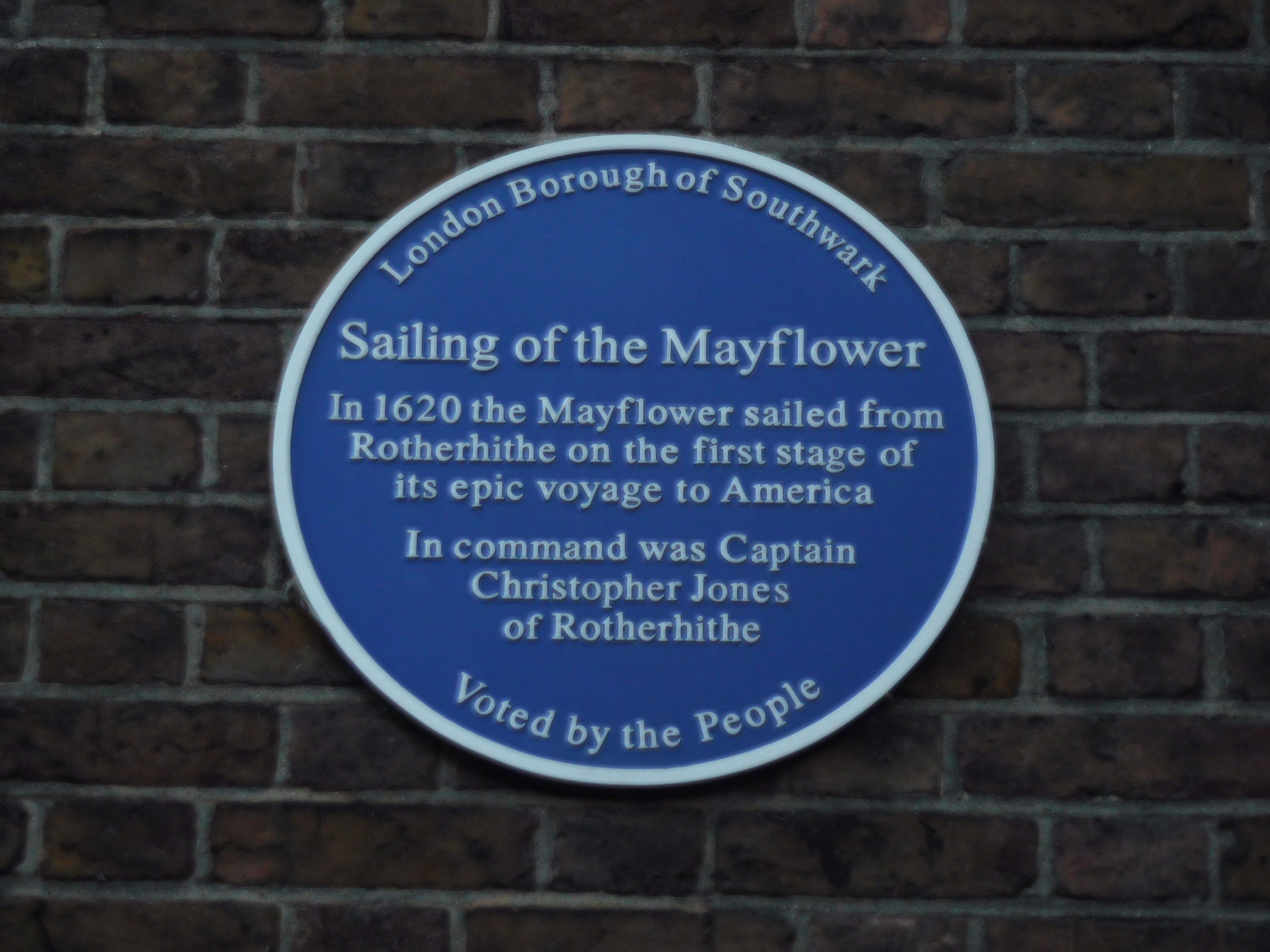 Historical marker in London acknowledging the Mayflower.